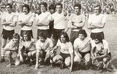 Temperley squad for the 1974 season